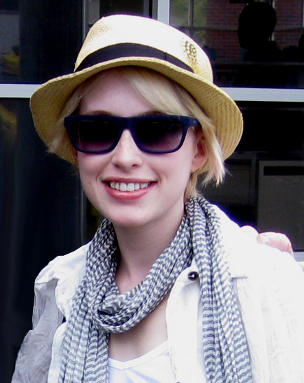 Alexis Grace, finalist on the eighth season of American Idol.